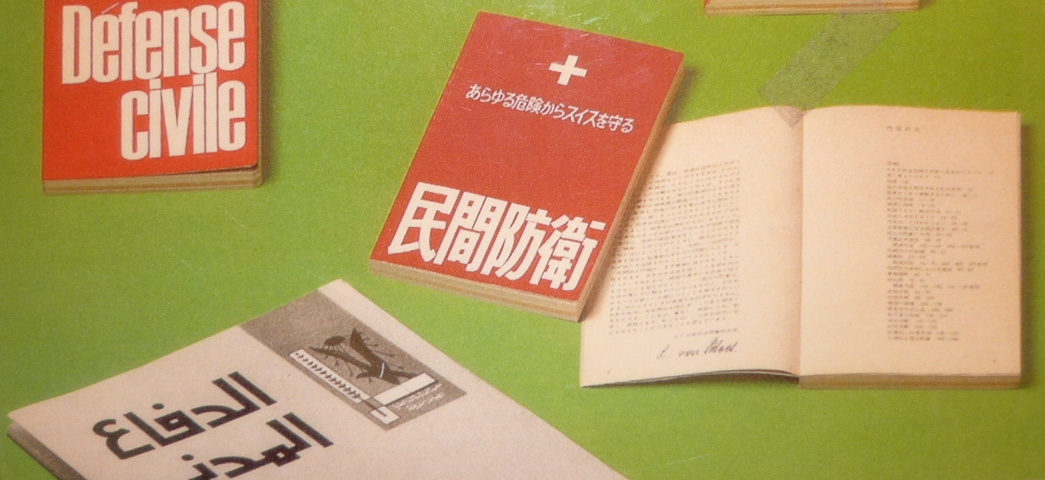 Civil defense book, Switzerland, 1969